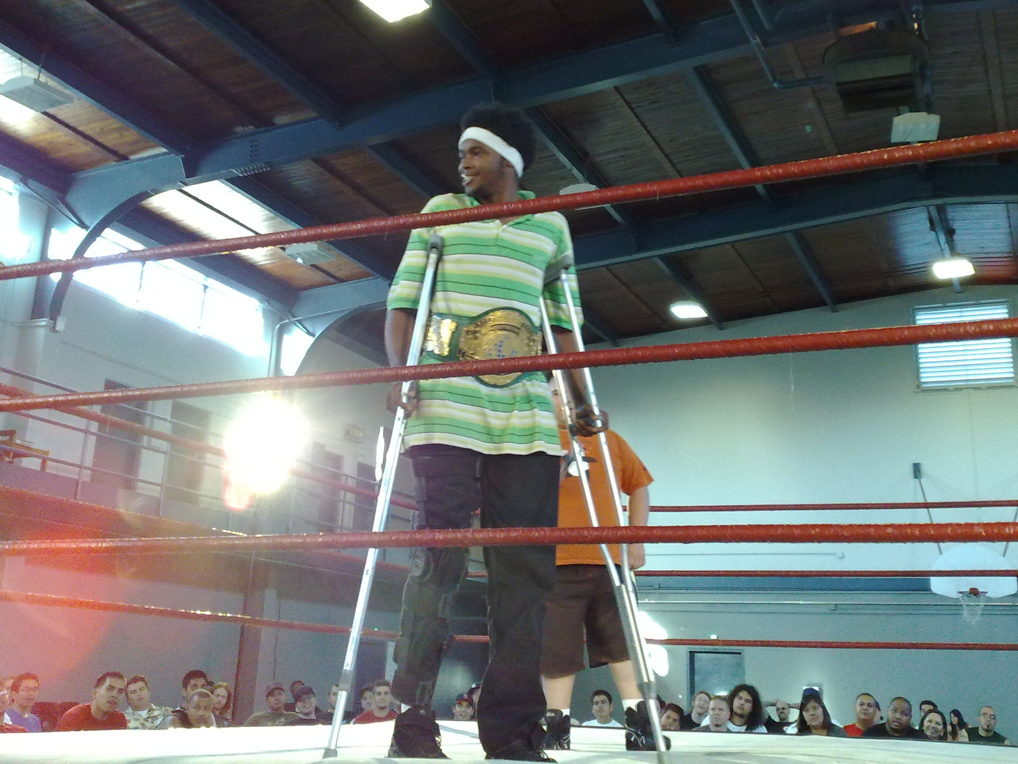 Professional wrestler Human Tornado (real name Craig Williams) on crutches as the Pro Wrestling Guerrilla (PWG) World Champion at PWG's DDT4 Night 2 show on May 18, 2008.